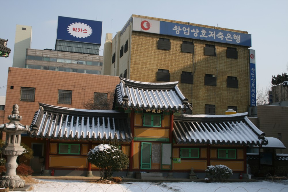 A view of the Wongak Temple (Wongaksa) in Gwangju, South Korea